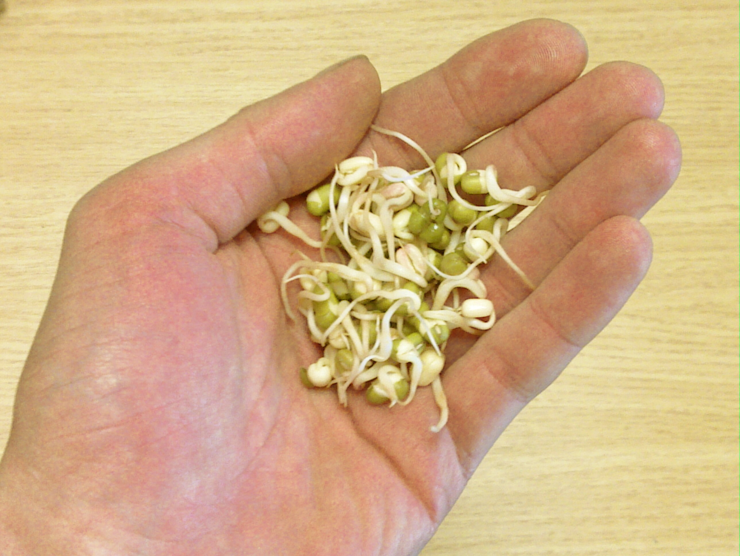 A bunch of home-grown Mung bean sprouts.